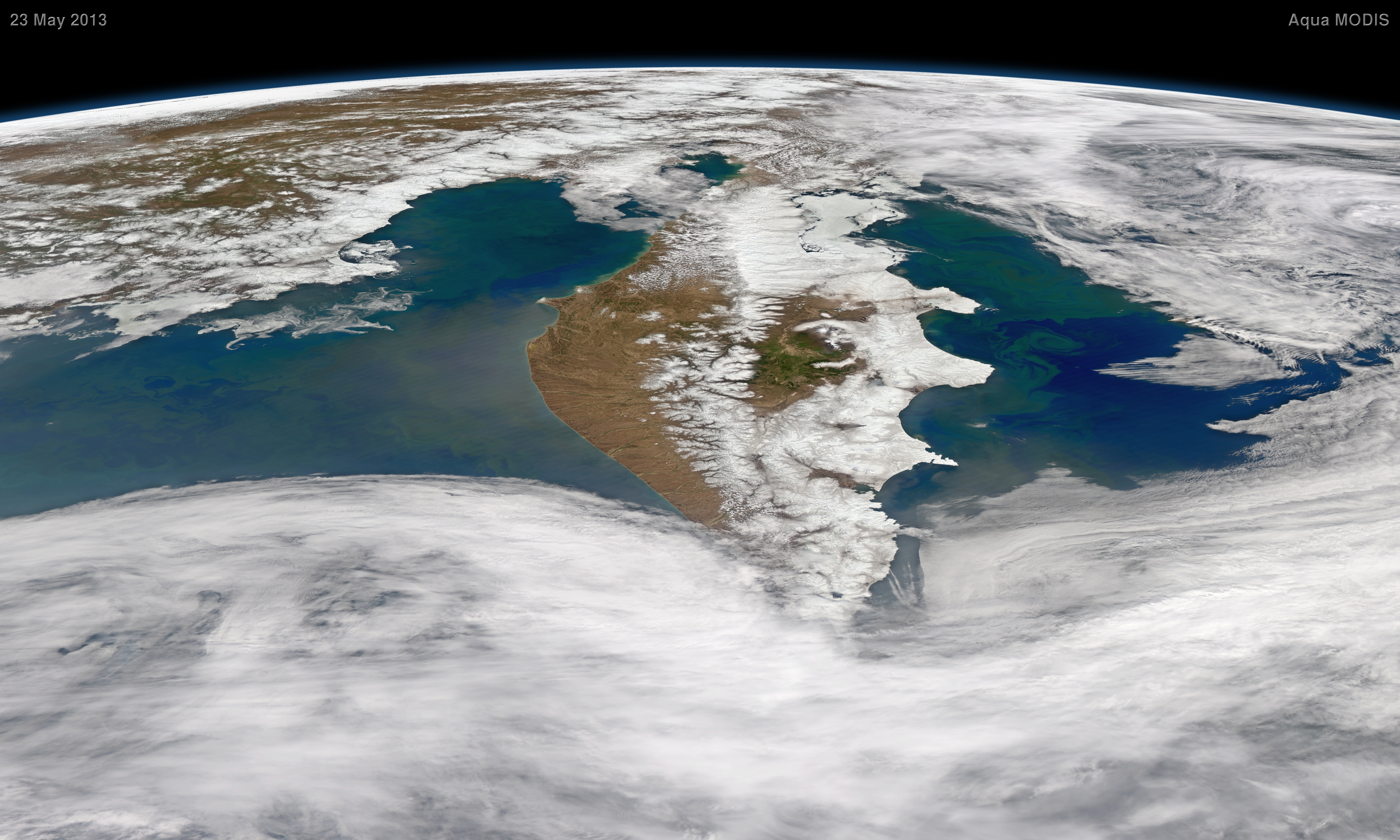 The Kamchatka Peninsula of far eastern Russian was surrounded by life in late May 2013—at least the oceanic sort. Massive blooms of microscopic, plant-like organisms called phytoplankton spread green over the nearby waters. Phytoplankton typically support an abundance of other fish and marine life. The Moderate Resolution Imaging Spectroradiometer (MODIS) on NASA's Aqua satellite captured the natural-color imagery to make this composite view on May 23, 2013. Looking toward the North Pole from the southern end of the peninsula, blooms of chlorophyll-rich cells appear off both the west coast—in the Sea of Okhotsk—and to the east in the North Pacific Ocean. Stretching nearly 1,250-kilometers (780 mile) from north to south, the peninsula is dotted with volcanoes, some of which are faintly visible in the image above. (Click on the large version for a better view.) Kamchatka lies along the Pacific “Ring of Fire,” an area of extremely active volcanism and plate tectonic earthquakes. That volcanism probably played some part in these blooms. Several volcanoes—including Kizimen, Shiveluch, and Bezymianny—have been spewing iron-rich ash and lava, both of which fall in the ocean. Iron also runs off the land in rivers and gets churned up from the ocean floor by currents and storms. Iron is a key nutrient for phytoplankton growth, as it helps them process nitrate. The east side of the Peninsula is also bathed in the cool, nutrient-rich Oyashio Current, which originates in Arctic waters and flows south along the coast of Siberia and Kamchatka toward Japan. Caption by Mike Carlowicz.